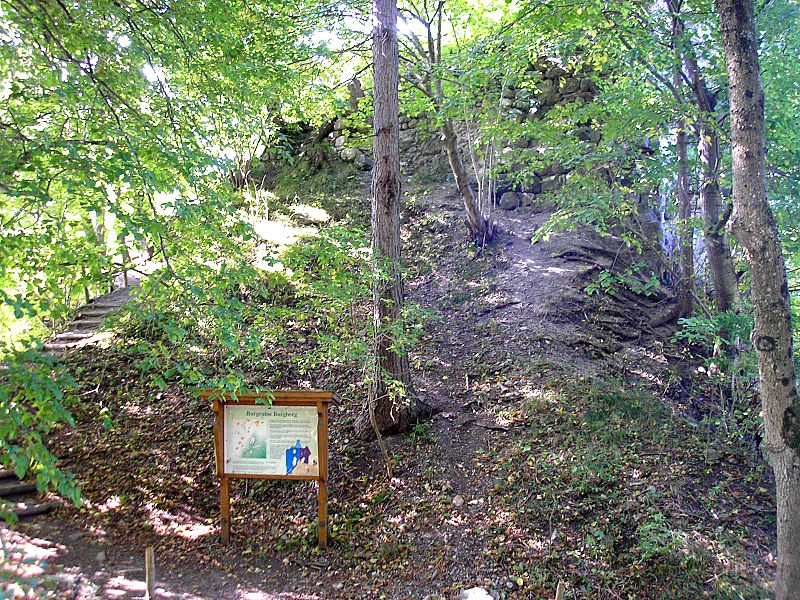 Burgberg castle (Burgberg im Allgäu, Landkreis Oberallgäu, Bavaria, Germany). The central castle, looking west